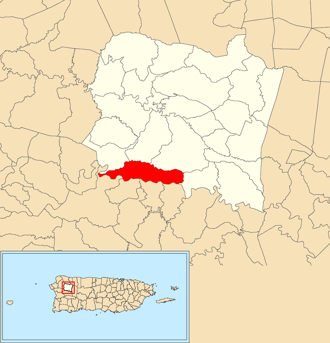 Guacio, San Sebastián, Puerto Rico locator map